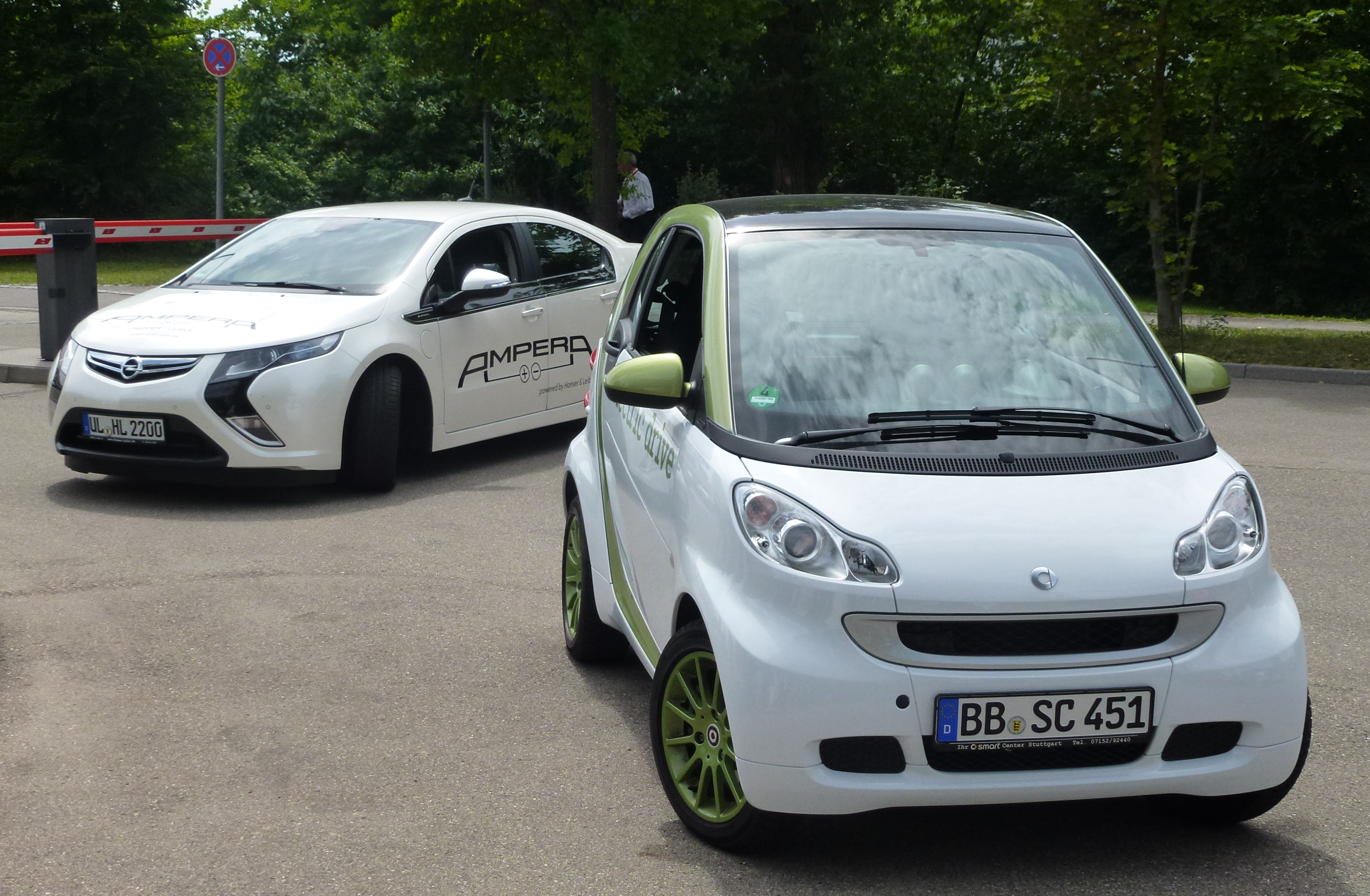 Electric and hybrid vehicle (smart-ed and Opel Ampera)